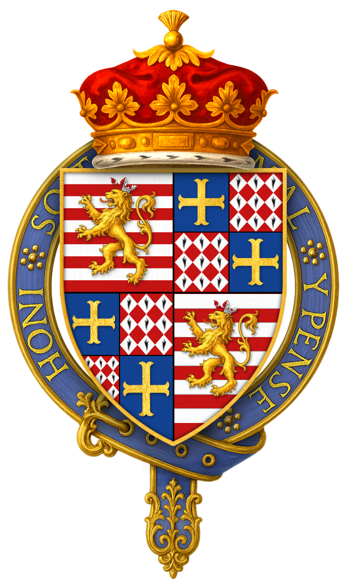 Coat of arms of Sir Charles Brandon, 1st Duke of Suffolk, KG Based on Suffolk's stall plate which remains intact at St. George's chapel. The arms are, quarterly: 1 and 4, barry of ten, argent and gules, a lion rampant or, crowned per pale gules and argent (for Brandon); 2 and 3, azure a cross moline or (for Bruyn), quartering lozengy ermine and gules (for de la Rokele)